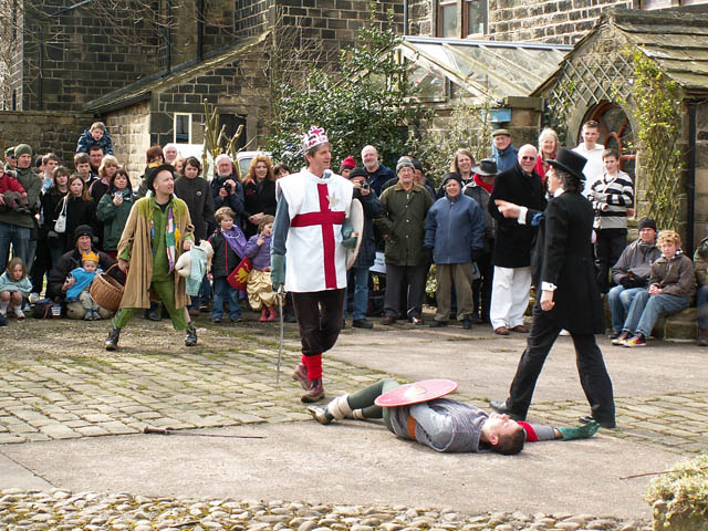 St George slays Bold Slasher - Heptonstall Pace Egg Play The Pace Egg Play is acted out every Good Friday in Weavers Square, Heptonstall. The Heptonstall Players give the following description "Originally an adult rebirth ceremony for a good new season The Pace Egg Play is perhaps the world's oldest drama and can be traced back through English and European Mummers' plays to ancient Egypt and Syria. A mixture of a pagan rebirth ceremony with the later influences of Christianity and the Crusades." This account of the plays origins is disputed by some researchers who suggest it may be more recent in date. The Heptonstall version was revived in 1979. More information about the play and its origins